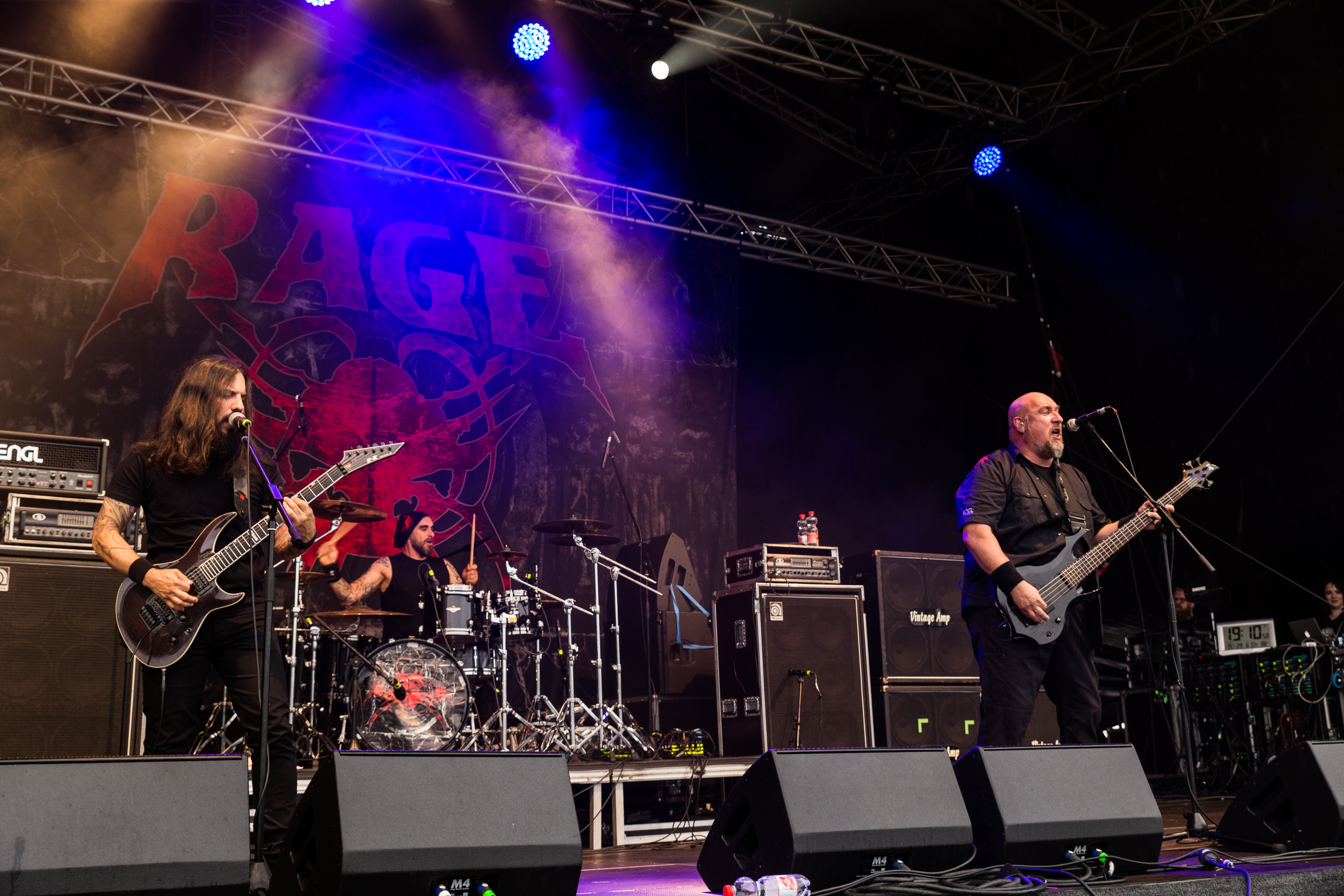 The German heavy metal band Rage at the Metal Frenzy 2017 in Gardelegen/Germany.